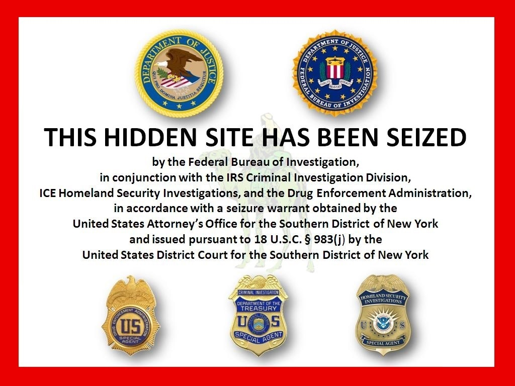 Image placed on Silk Road hidden service after arrest of Ross William Ulbricht (Dread Pirate Roberts).